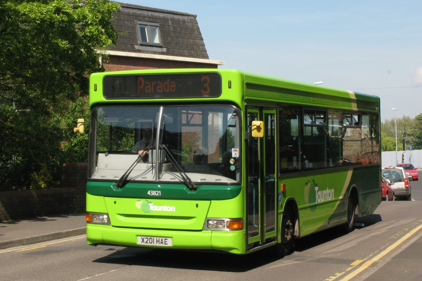 Heading for Taunton town centre along Castle Street to avoid a traffic jam on Park Street is The Buses of Somerset 43821 (a Dennis Dart registered X201 HAE).